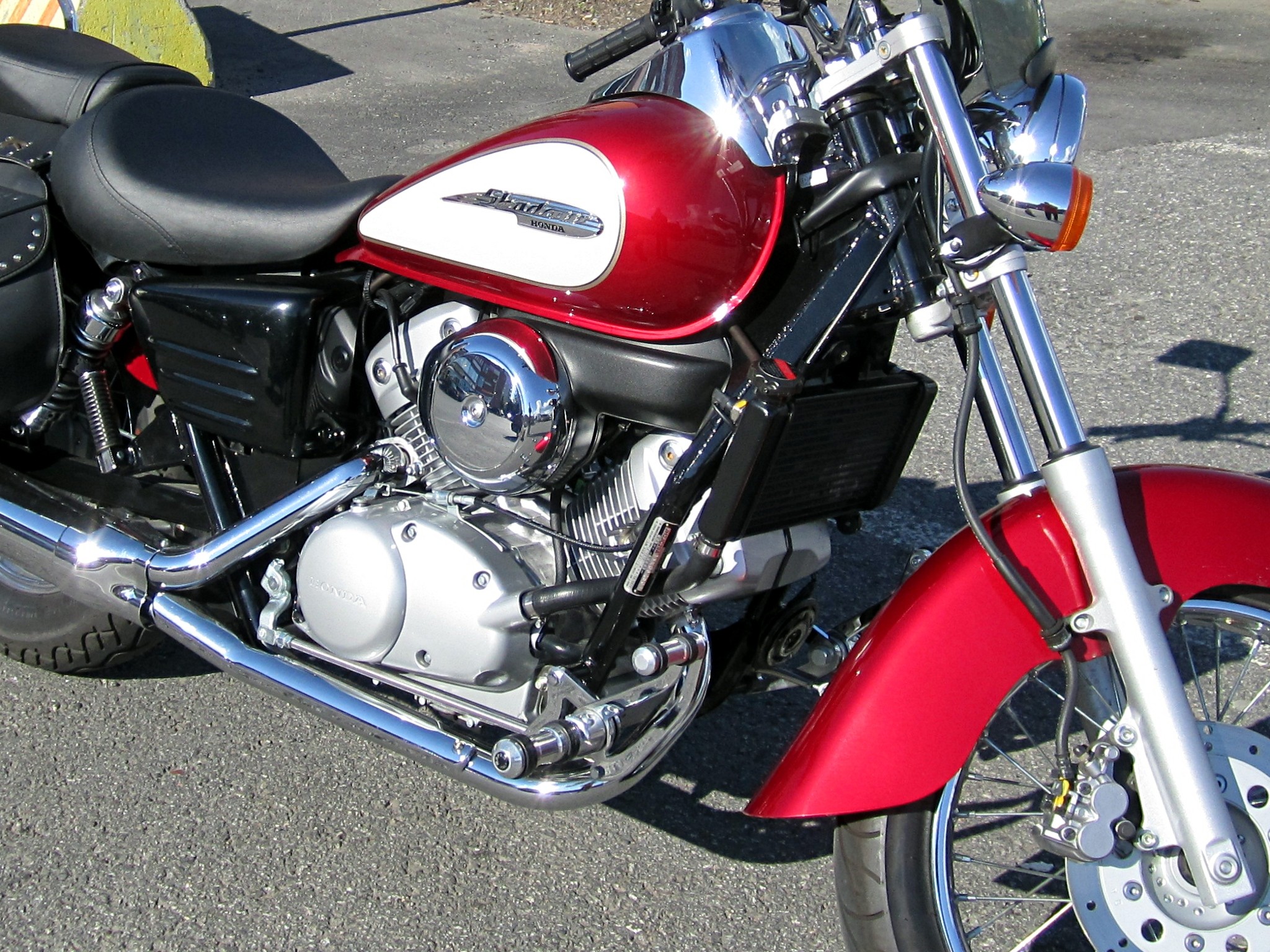 Honda VT125C. Right engine side.